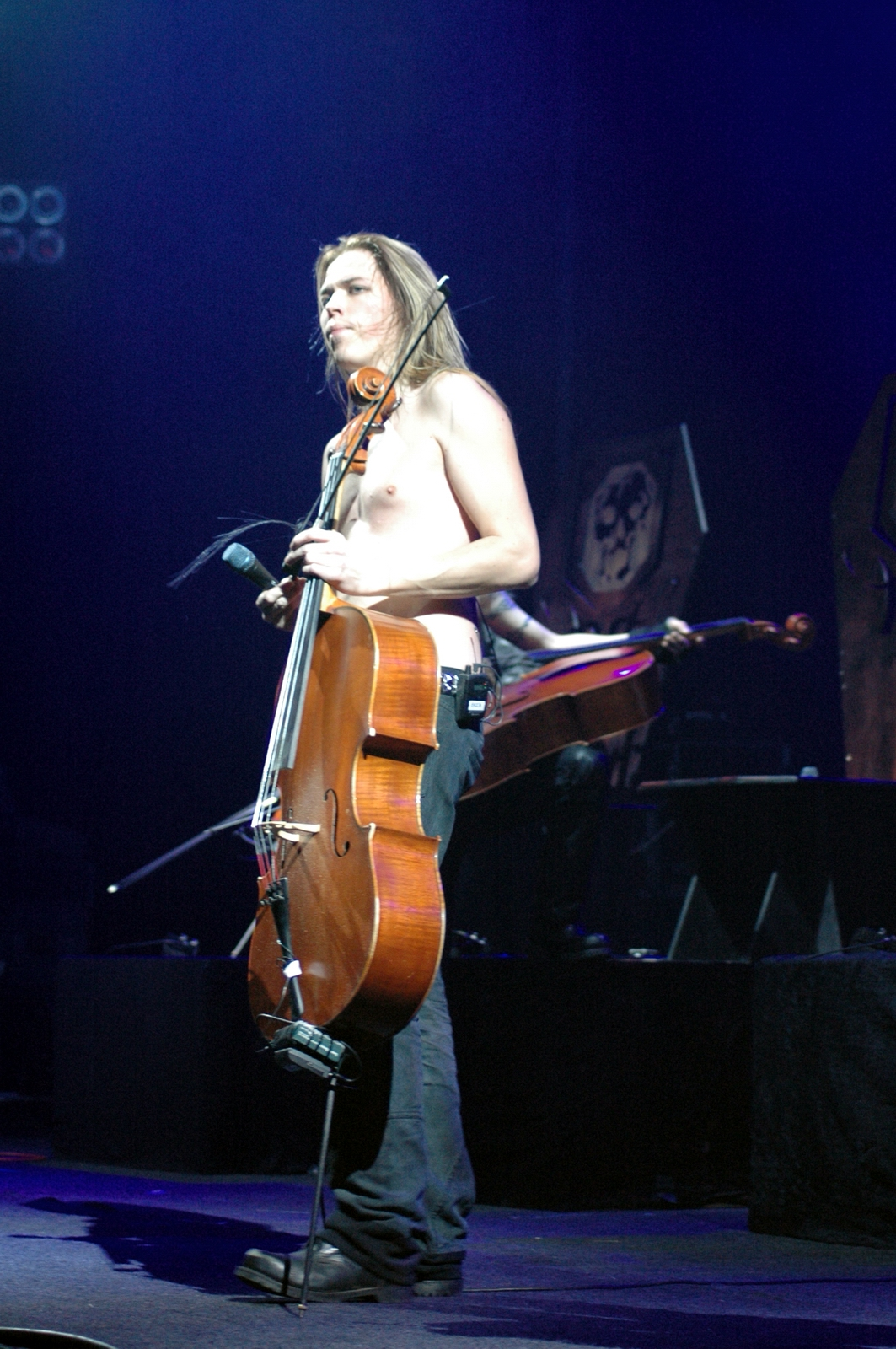 Eicca Toppinen from Apocalyptica at Metalmania Festival 2005 in Poland